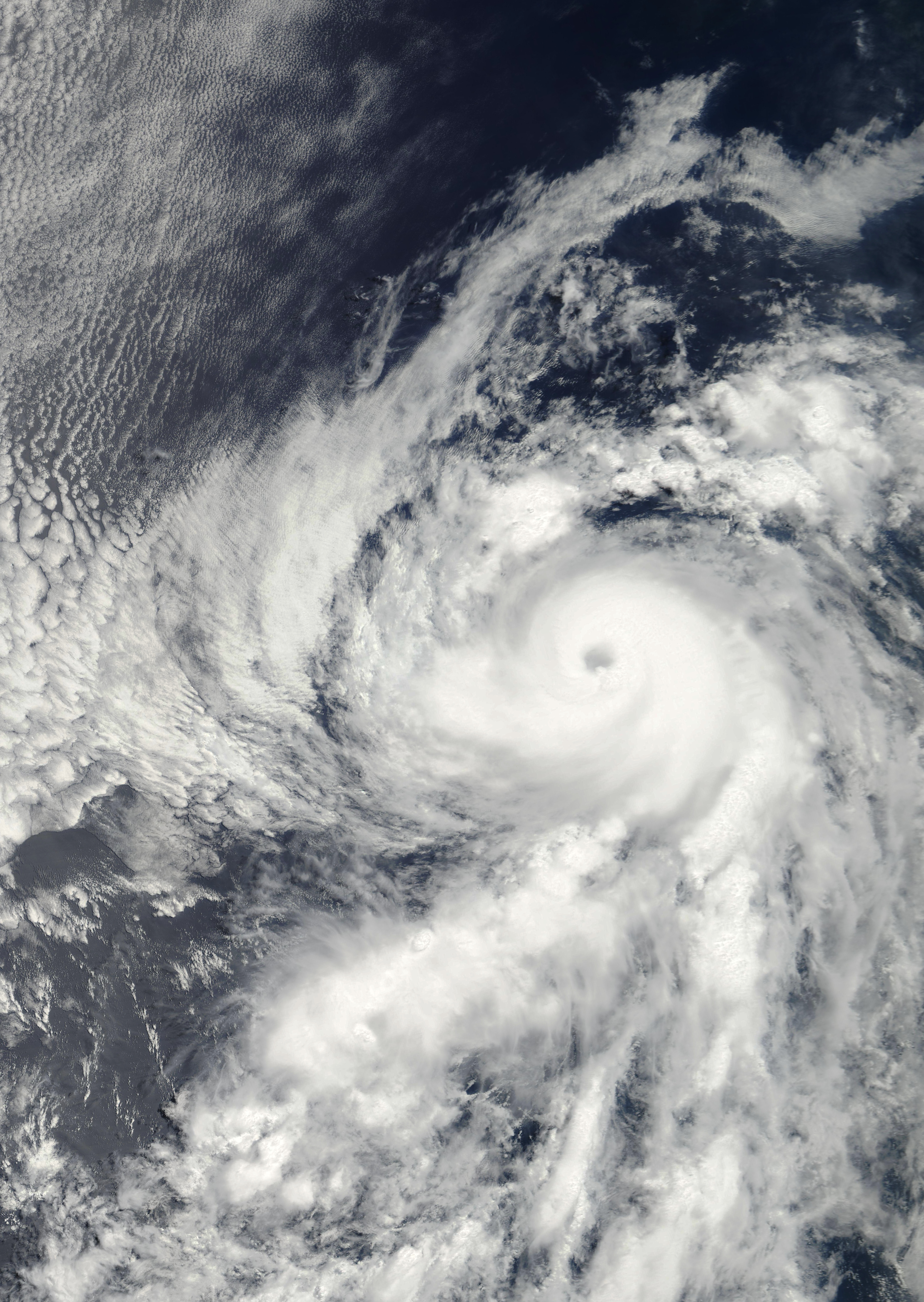 Hurricane Bud formed in the eastern Pacific on July 10, 2006, off the Pacific coast of Mexico. The tropical depression gathered power and size rapidly as it traveled northwest over the next several days, roughly parallel to, but well away from, the Mexican coast. The tropical depression was upgraded to tropical storm status and given the name Bud around midnight (local time) on July 11, and Bud was upgraded again to hurricane status only a few hours later. After a brief hiccup when it lost power and slipped back to tropical storm status, Bud intensified over subsequent days, reaching Category Three status on the Saffir-Simpson Hurricane Scale by the morning of July 13. This photo-like image was acquired by the Moderate Resolution Imaging Spectroradiometer (MODIS) on the Terra satellite on July 12, 2006, at 12:55 p.m. local time (18:55 UTC). The hurricane was quite compact, but had a well-defined spiral structure and a distinct eye. Sustained winds in the storm system were estimated to be around 160 kilometers per hour (100 miles per hour) around the time the image was captured, according to the University of Hawaii’s Tropical Storm Information Center.